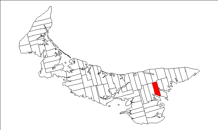 Public domain map of Prince Edward Island created by User:Plasma east with data courtesy of Geogratis, modified to show townships. Released under GFDL (self).